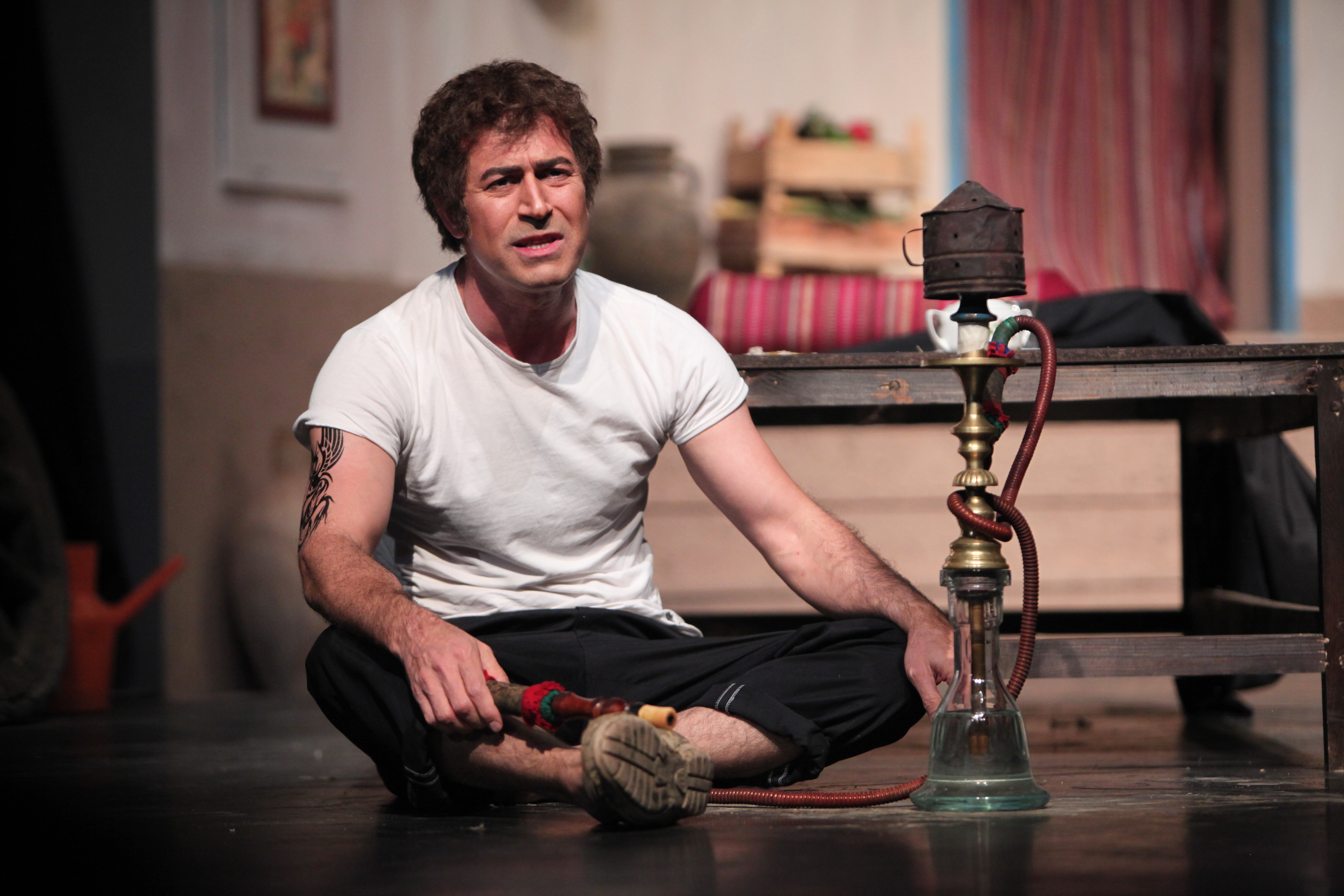 Danial Hakimi performing live on stage - Staircase (2012) Portraying "Bolbol"